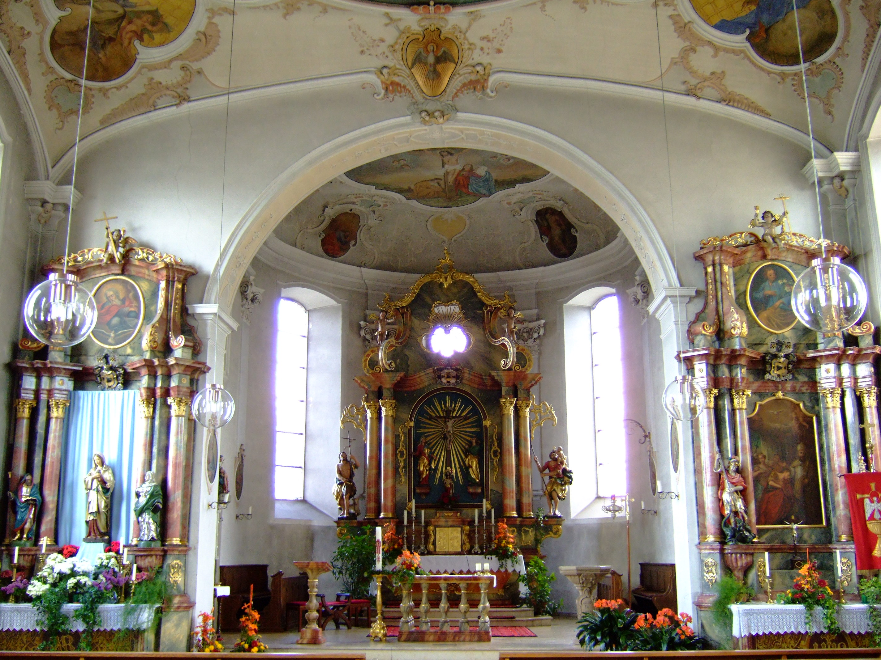 Quire Of the Church "St. Remigius" with vicarage of the Village Neckarsulm-Dahenfeld (built: 1748)